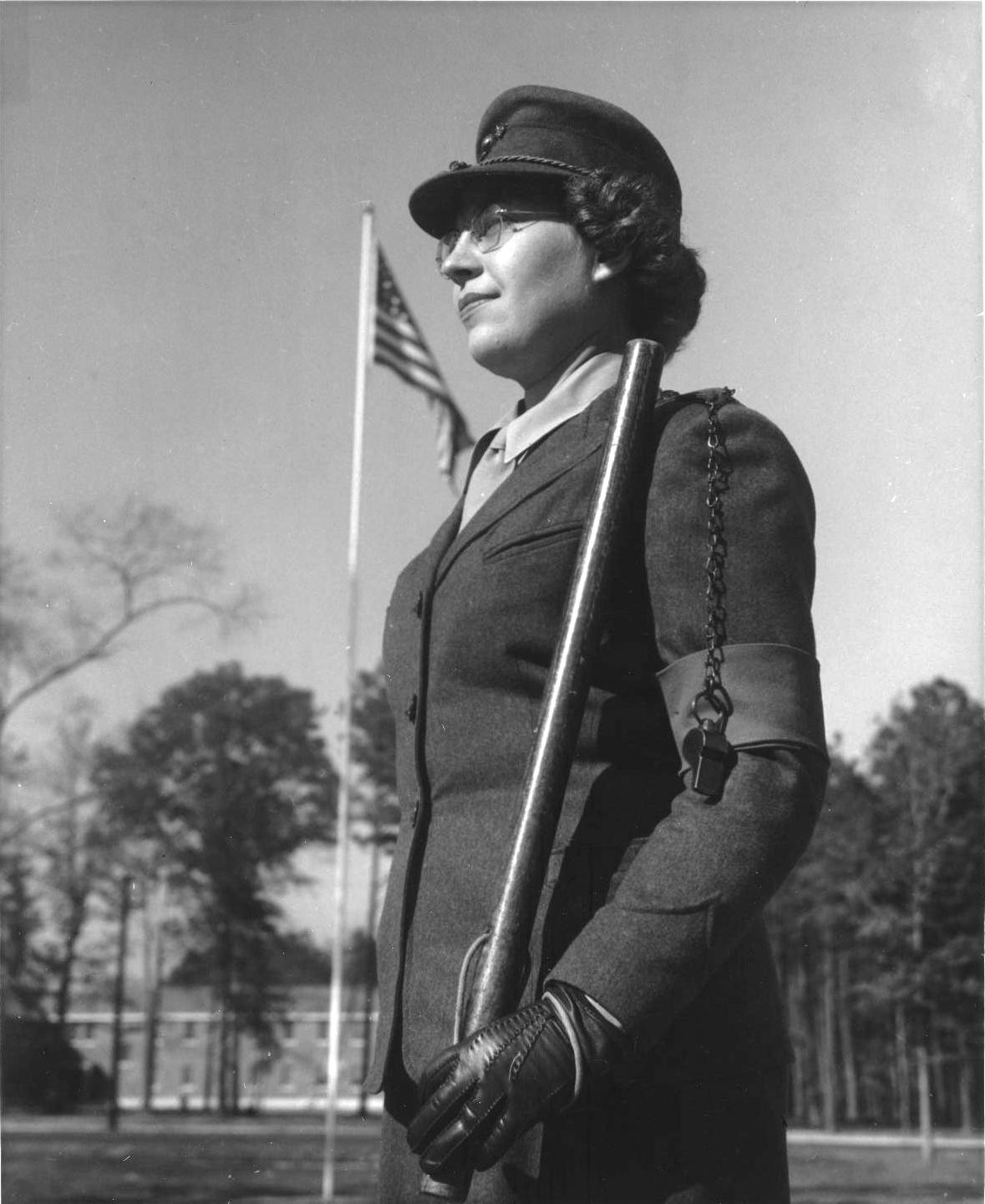 Private Eleanora Julia Csanady takes her turn on sentry duty at Marine Corps Women's Reserve Schools at Camp Lejeune, North Carolina in 1943. From the Marine Corps Women's Reserve Collection (COLL/981) at the Marine Corps Archives & Special Collections. OFFICIAL USMC PHOTOGRAPH